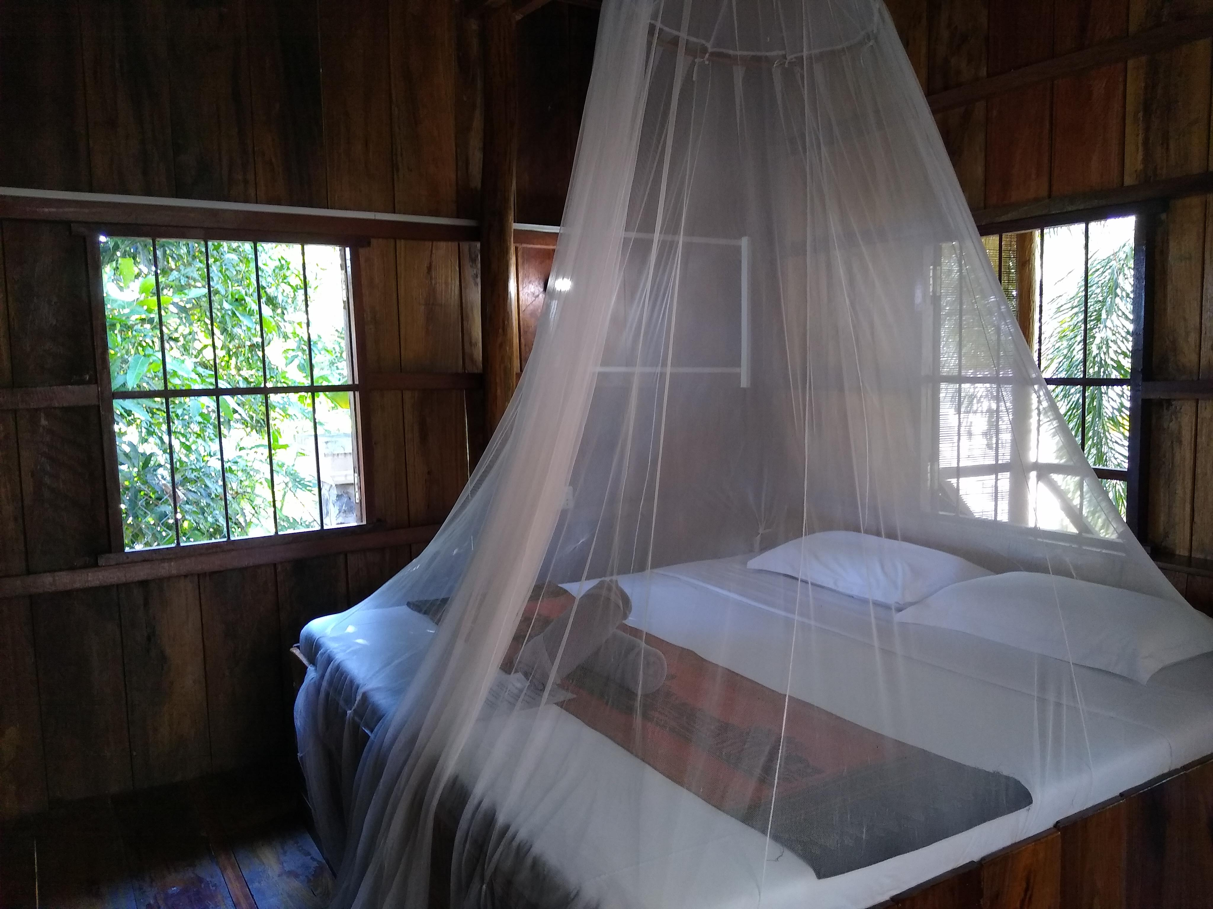 Interior of a bungalow at Bird of Paradise Bungalows, Kep, Cambodia.